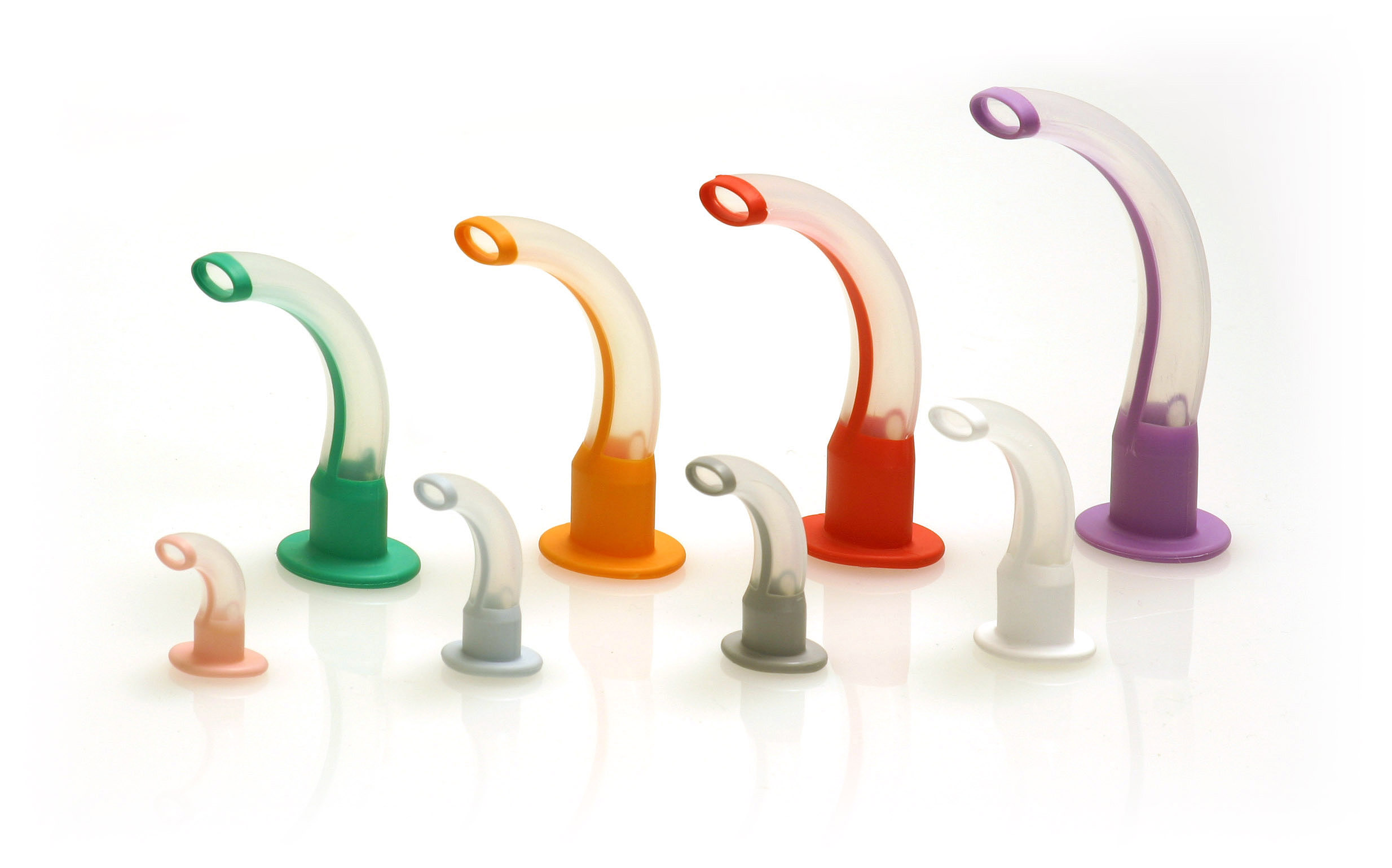 Intersurgical One-piece Guedel Airways.